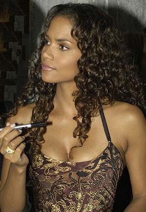 Halle Berry 2004 in Hamburg Germany.